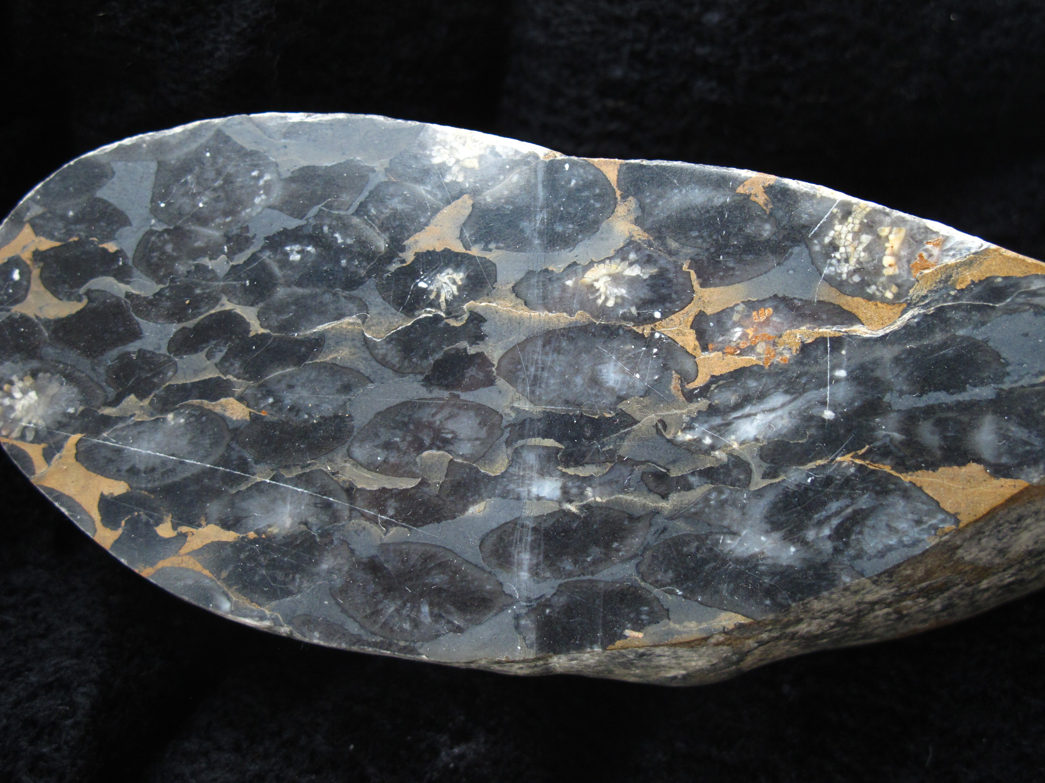 Cut and polished section through a large pebble (locality unknown i.e forgotten) showing a deformed coral limestone. Three deformation processes are visible - plastic deformation of the corals and matrix, pressure solution along stylolites parallel to the plane of flattening and calcite veining orthogonal to the plane of flattening